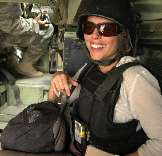 Picture of CBS News correspondent Lara Logan on duty in Iraq...originally a US Army source shown in the New York Post newspaper. Despite it being in a copyrighted paper, the picture itself is an original United States Army work, as is indicated in the watermark in the source (cropped out here). If the source link dies, the image can be found here, containing the source in the watermark.